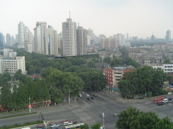 Photograph of the skyling of Nanjing